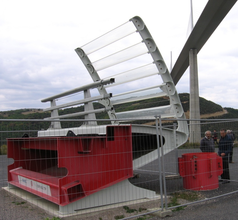 France - Millau viaduct: single segment of construction